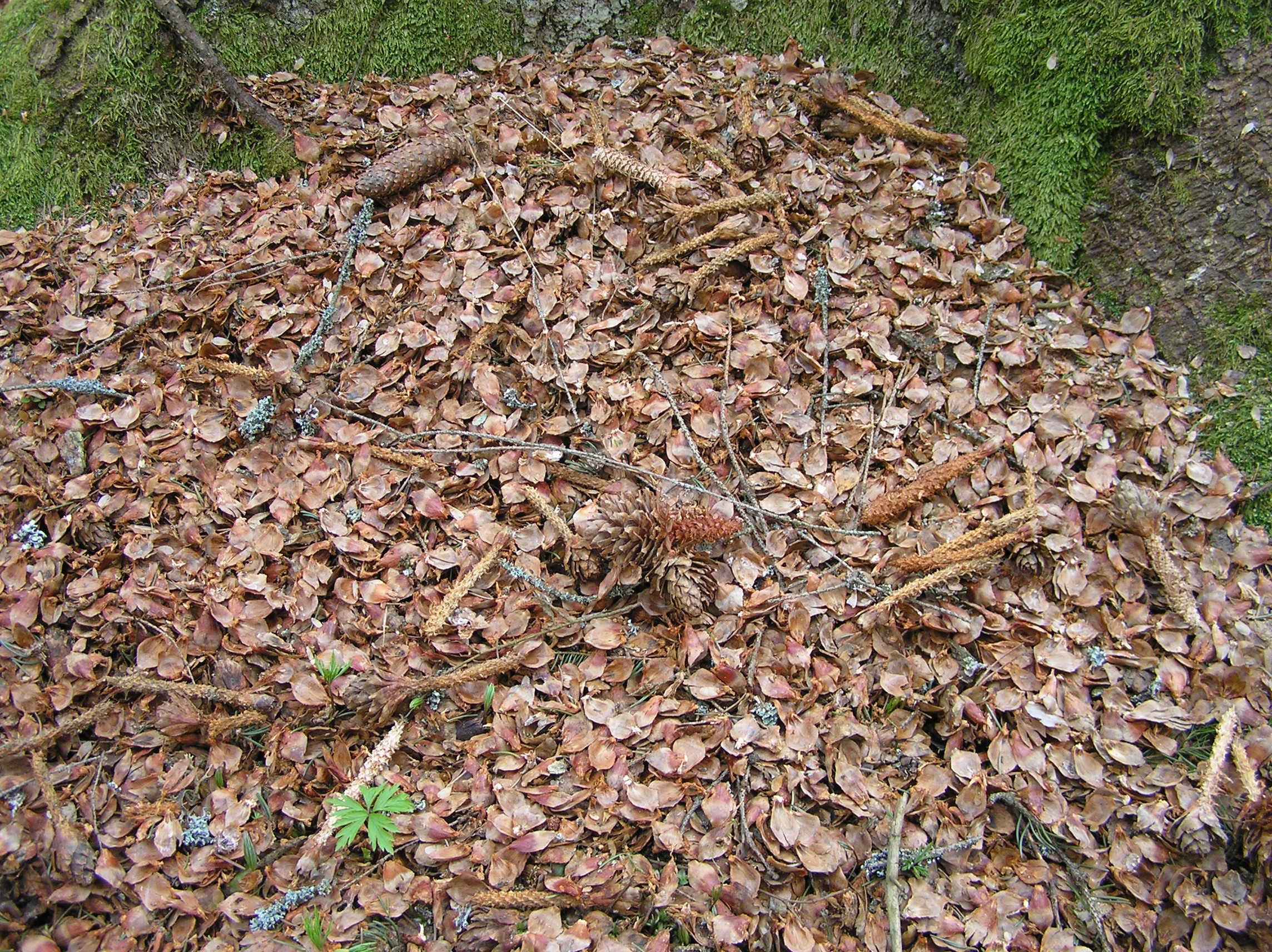 Sciurus vulgaris as damaging factor, Białowieża forest, Poland